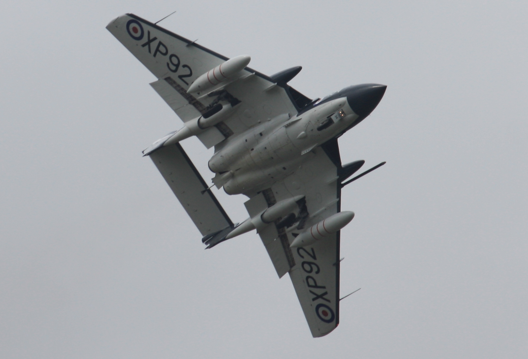 Culdrose (EGDR) UK - England, July 24 2013.